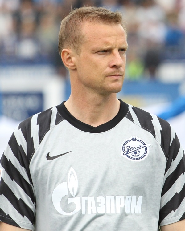 Vyacheslav Aleksandrovich Malafeev